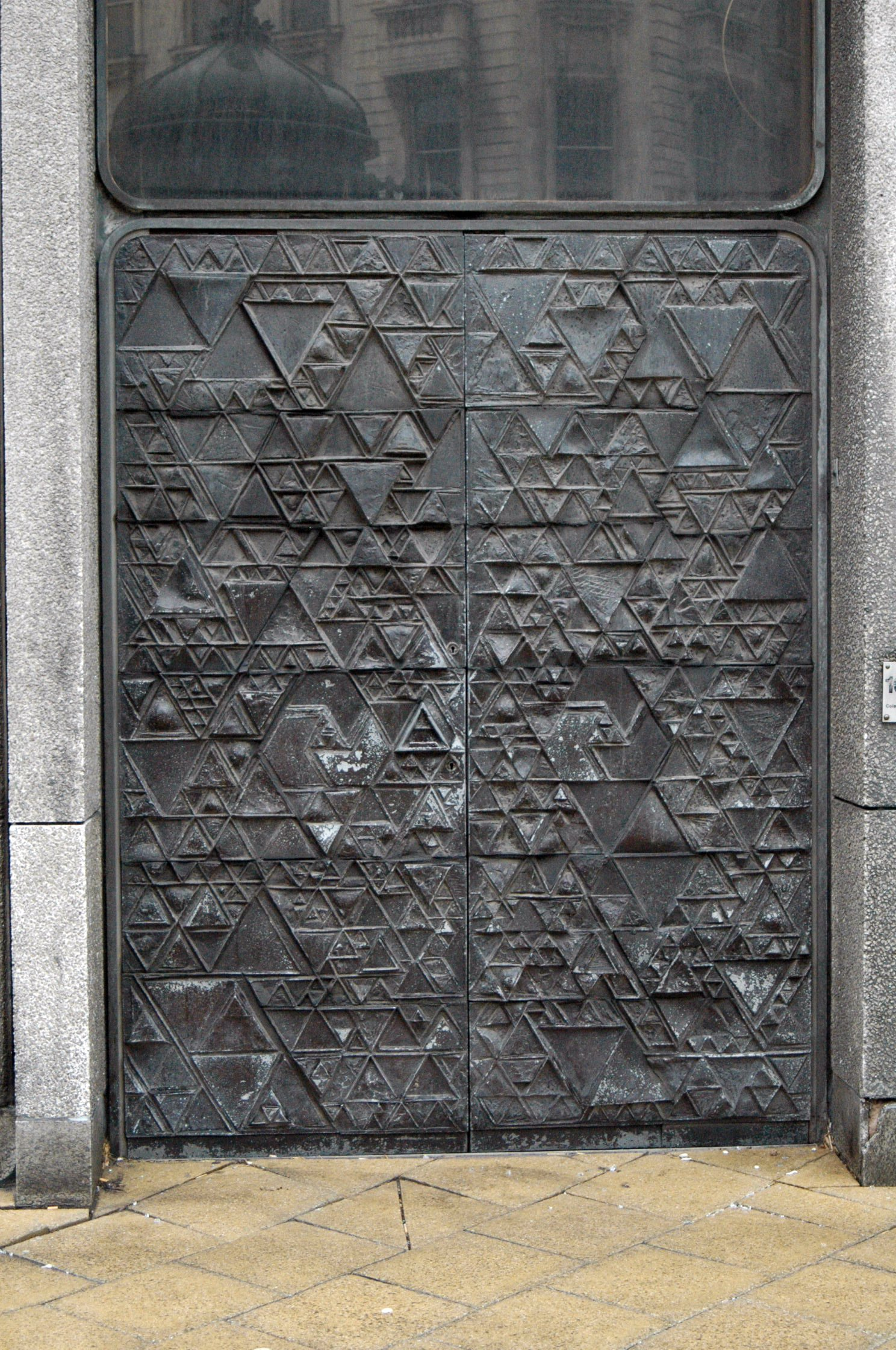 These are the abstract bank doors which would have been the entrance to the banking hall under the NatWest Tower in Birmingham, UK.